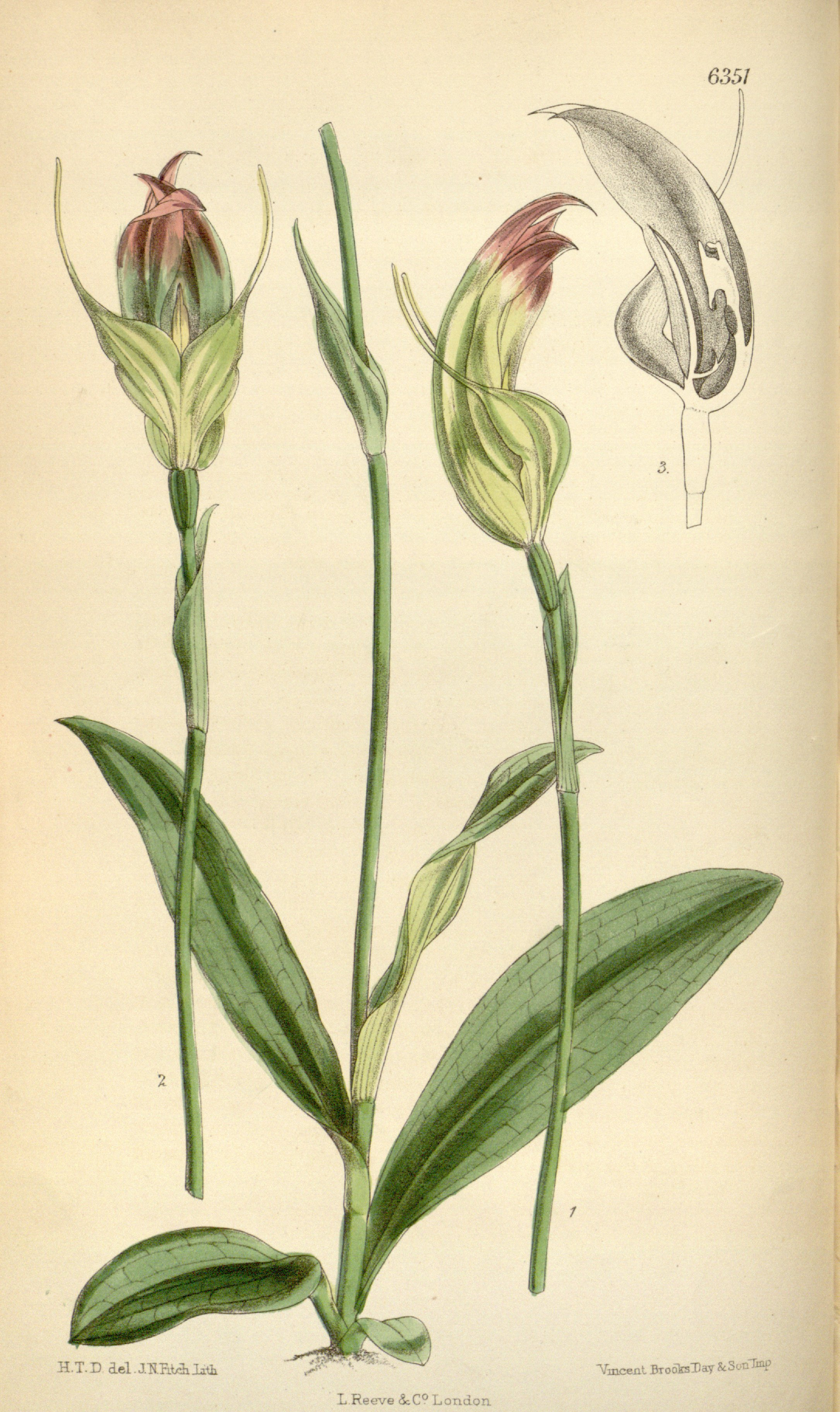 Illustration of Pterostylis baptistii